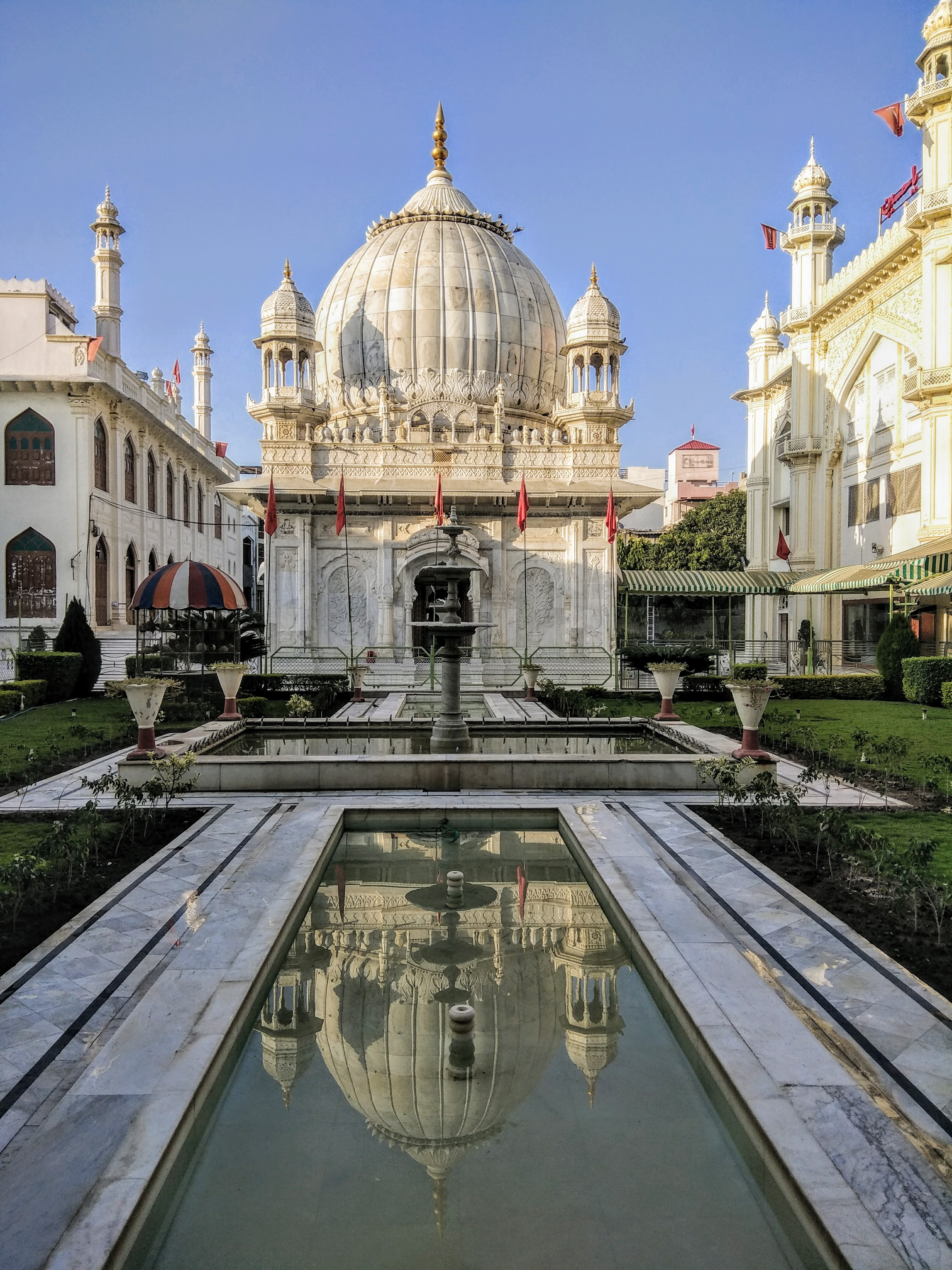 Shot in 2017 a pic facing North of Mazar e Najmi in Qamari Marg, Danigate, Ujjain